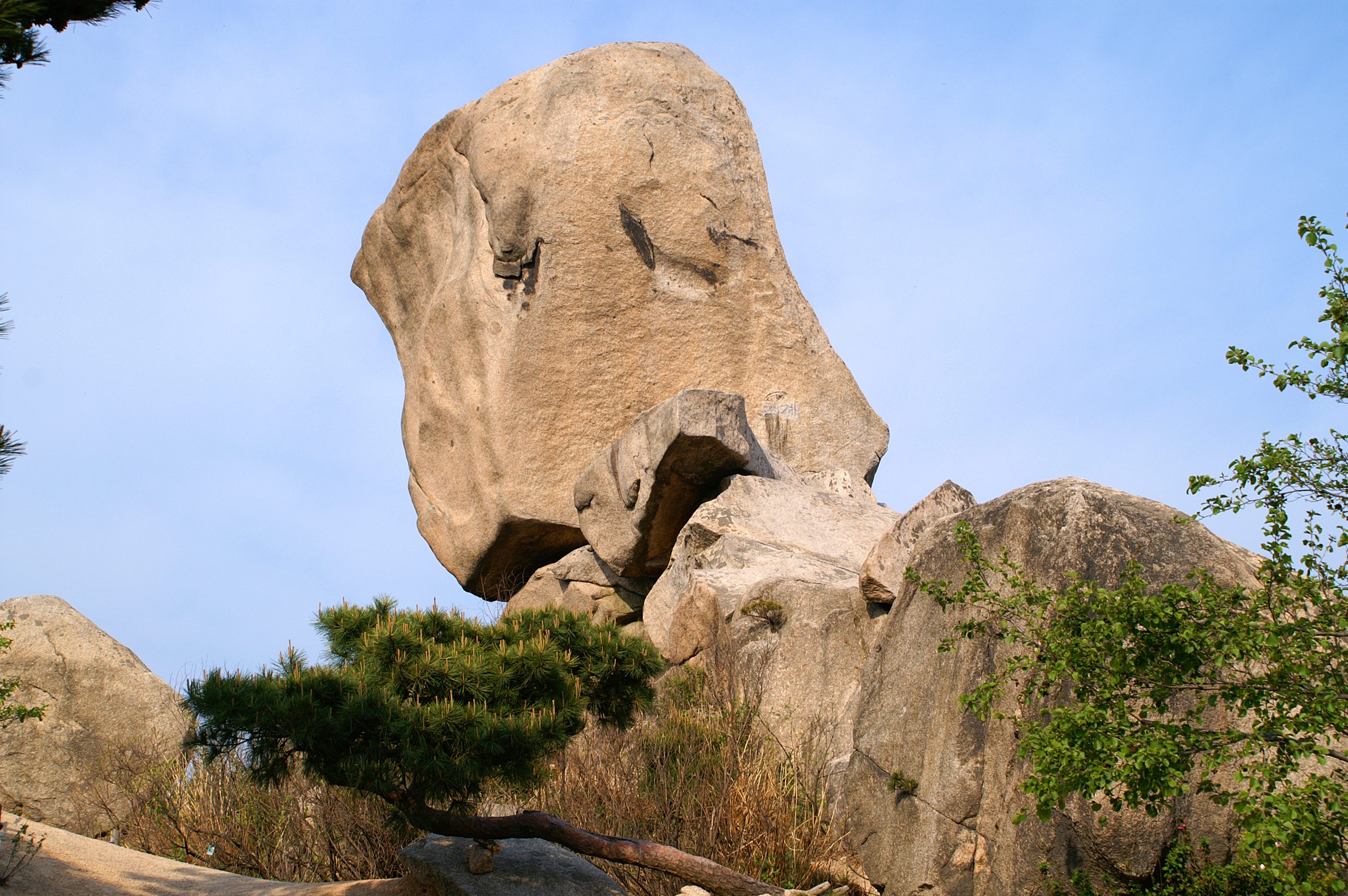 Bukhansan, nice Samo rock